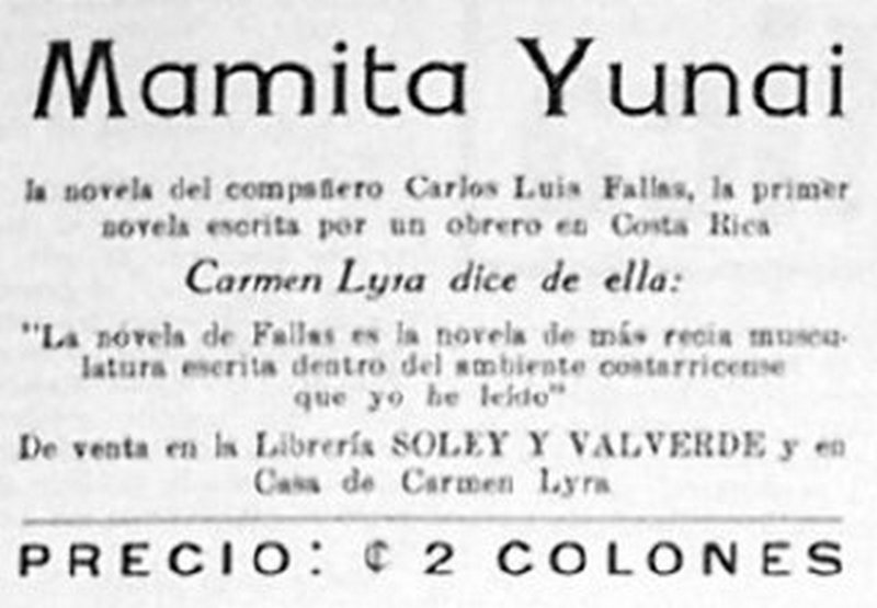 Advertising of Carlos Luis Fallas's novel Mamita Yunai in the newspaper Trabajo in 1941